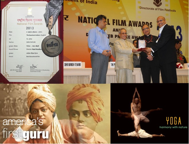 A poster of Raja Choudhury films